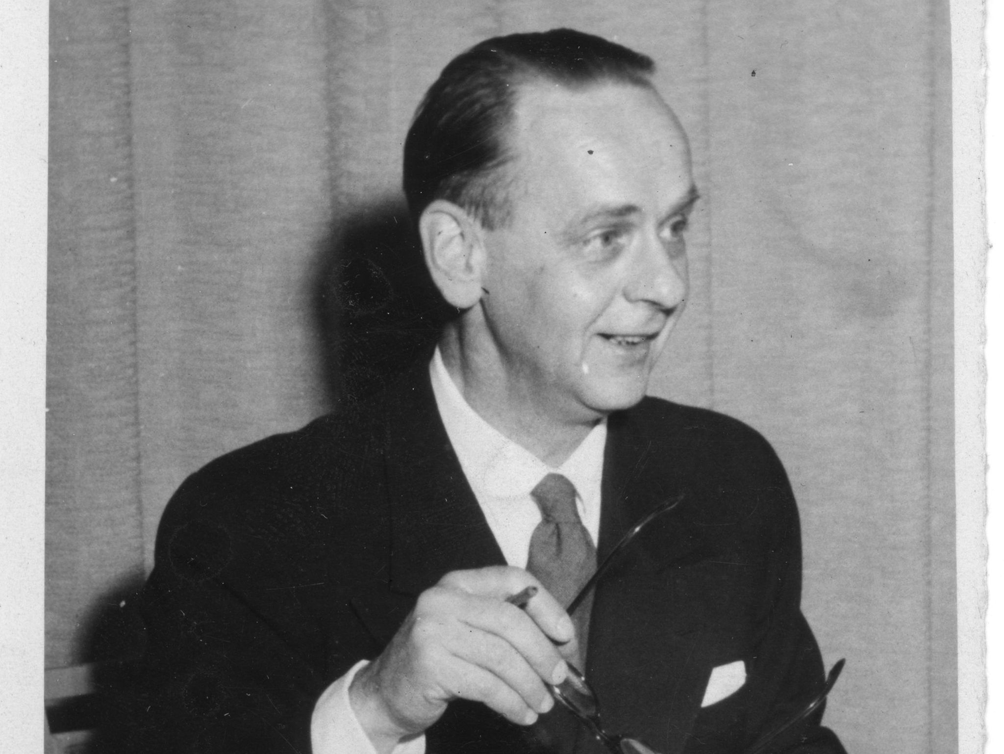 Photograph of the Finnish diplomat Aaro Pakaslahti (1903–1969).